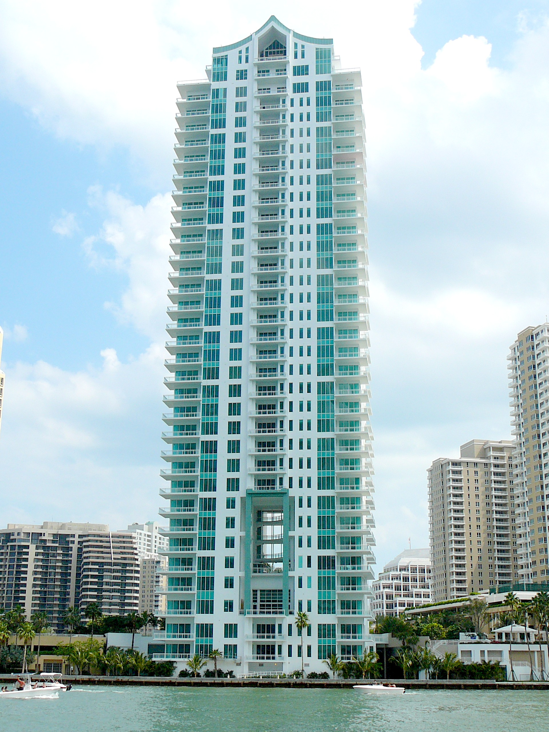 Digital photo taken by Marc Averette. The Asia tower on Brickell Key in downtown Miami on 5/10/2008